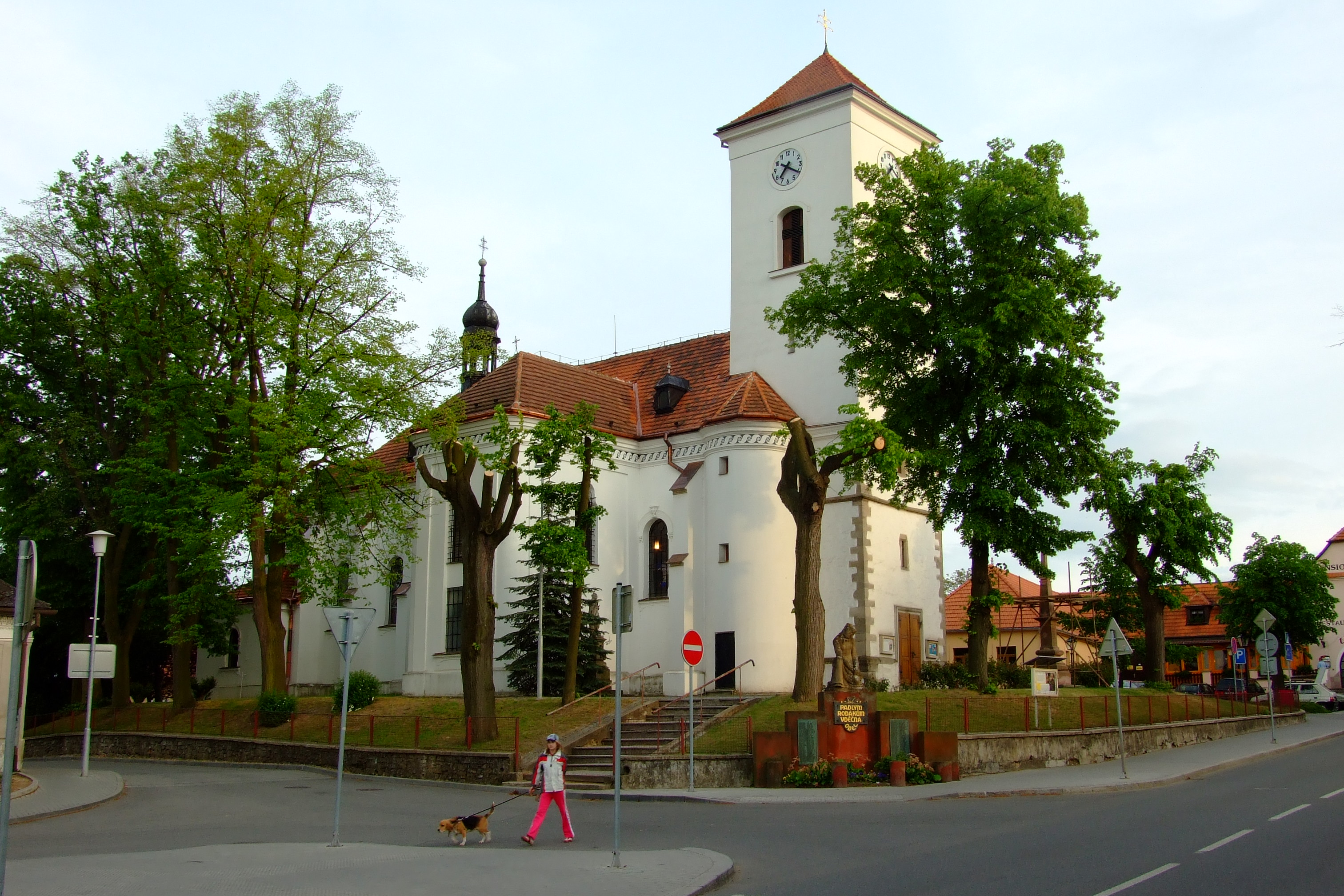 Líšeň (city of Brno), Church of St Giles.